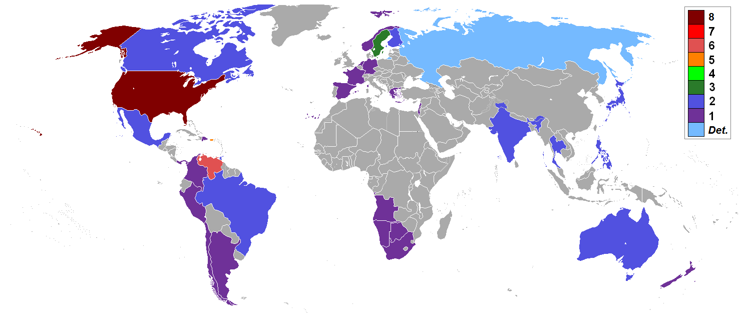 Miss Universe winners 1952-2010 by country